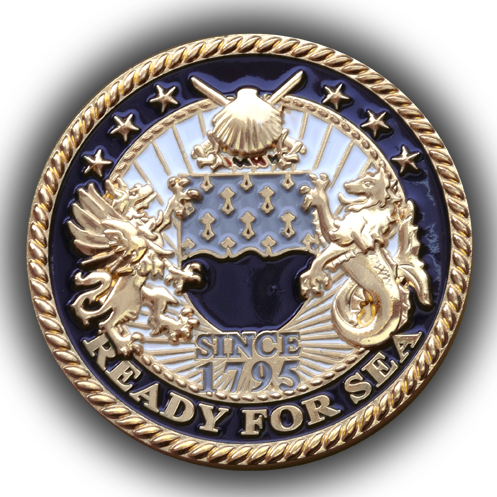 Challenge coin manufactured and produced by for the Navy Supply Corps